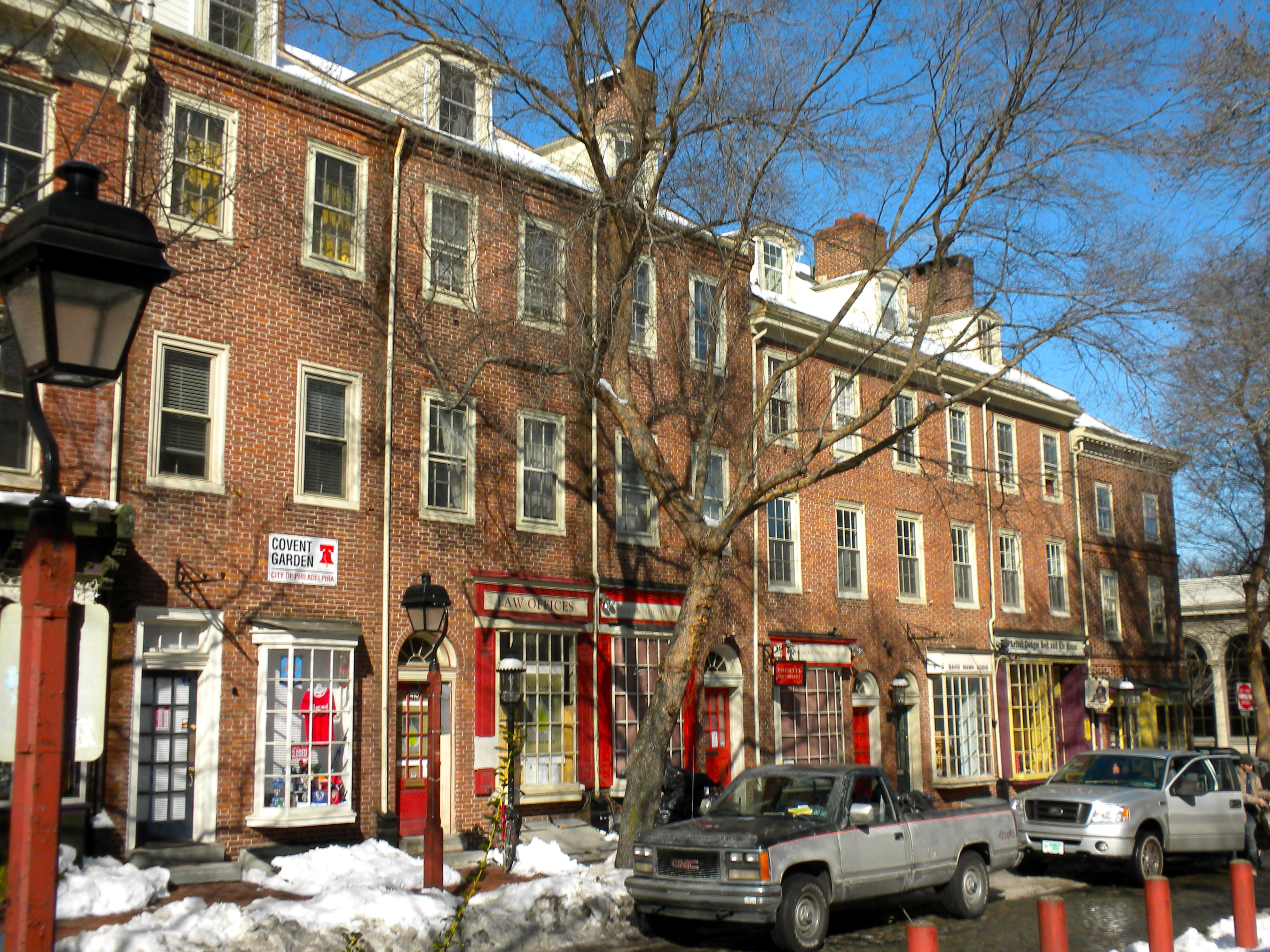 Head House Square in Philadelphia on NRHP since June 19, 1972. The square is on both sides of the 400 block of South 2nd Street in the Society Hill neighborhood of Center City, Philadelphia. Note that "New Market" which is also a NRHP site is in the middle of the square. But this NRHP site seems to be for the outside of the square